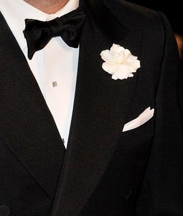 Tom Ford at 2009 Venice Film Festival